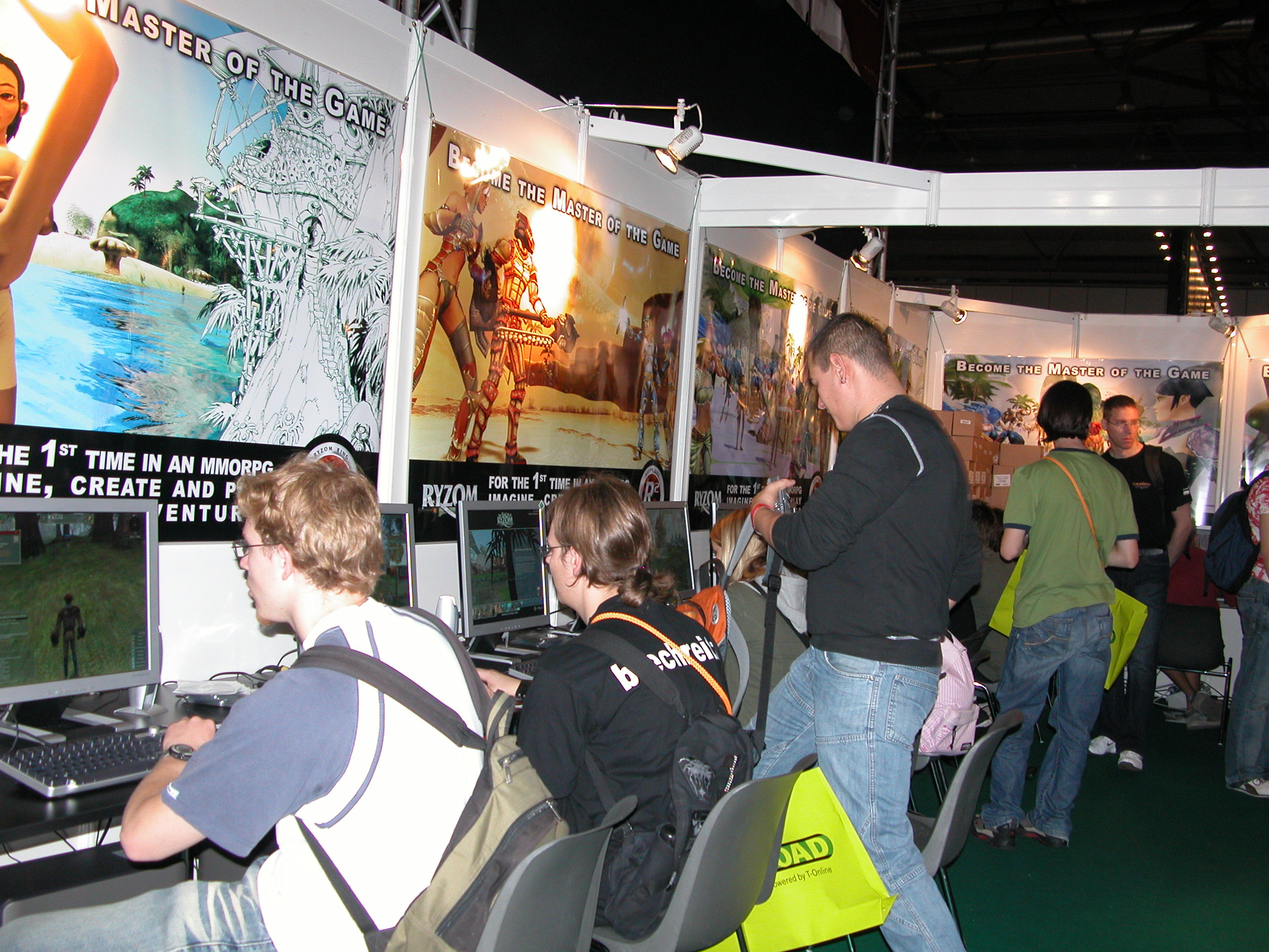 exhibition stand for the video game Ryzom on the Games Convention of 2006 in Leipzig.